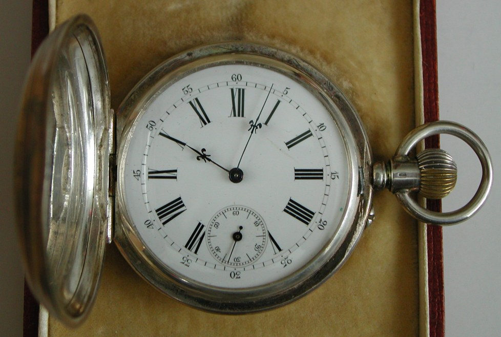 Spring cover pocket watch